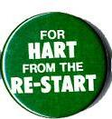 For Hart from the re-start